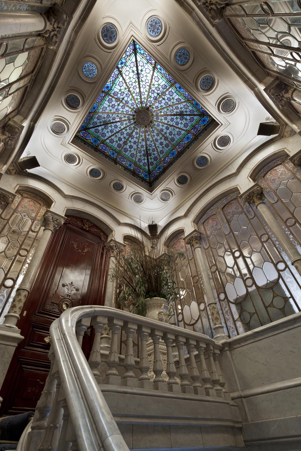 Staircase of Casa Malagrida